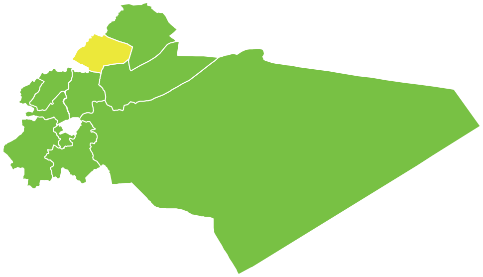 Yabrud District, Syrian governorate of Rif Dimashq.